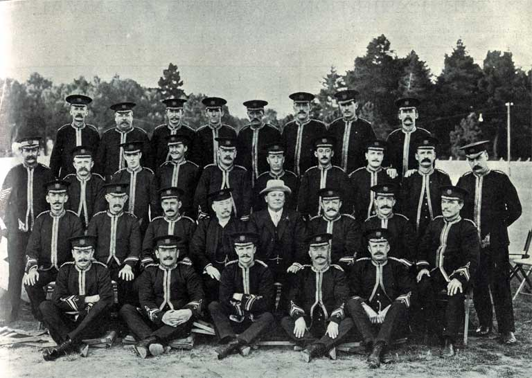 Per the source website: The Besses o’ th’ Barn Band. This photograph was taken near the band rotunda on the Exhibition sports ground last week. In the centre is Mr Owen, conductor, and on his left, wearing a straw hat, is Mr J. H. Iles, Manager. The bandmaster, Mr Berry, is on the extreme left of the picture. He has the insignia of rank on his arm.